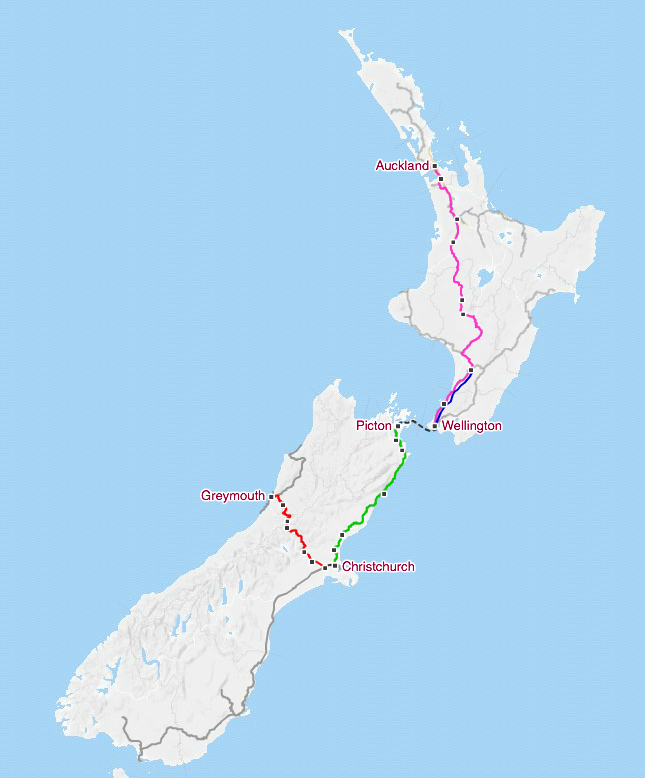 KiwiRail passenger train map Legend: ━━━ Northern Explorer ━━━ Capital Connection ━━━ Coastal Pacific ━━━ TransAlpine train